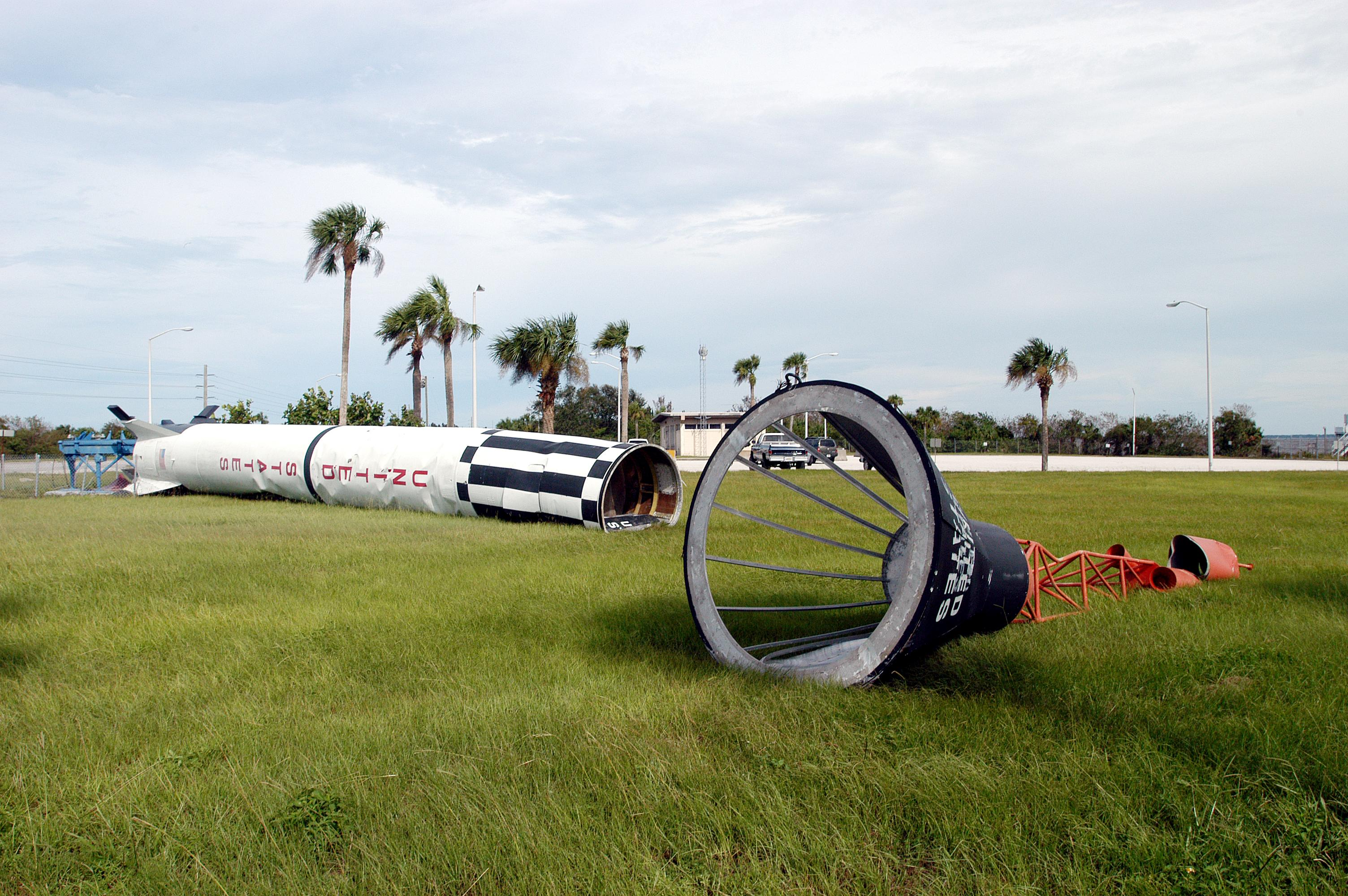 A Mercury-Redstone rocket on display at the Pass and Identification Building at the entrance to Kennedy Space Center lies on its side following Hurricane Frances on September 7, 2004. The storm's path over Florida took it through Cape Canaveral and KSC property during the Labor Day weekend.